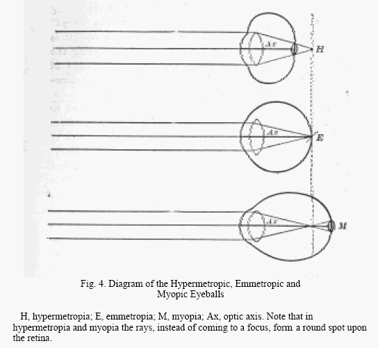 Image shows the shape of the eyeball for 3 different conditions of the eye.